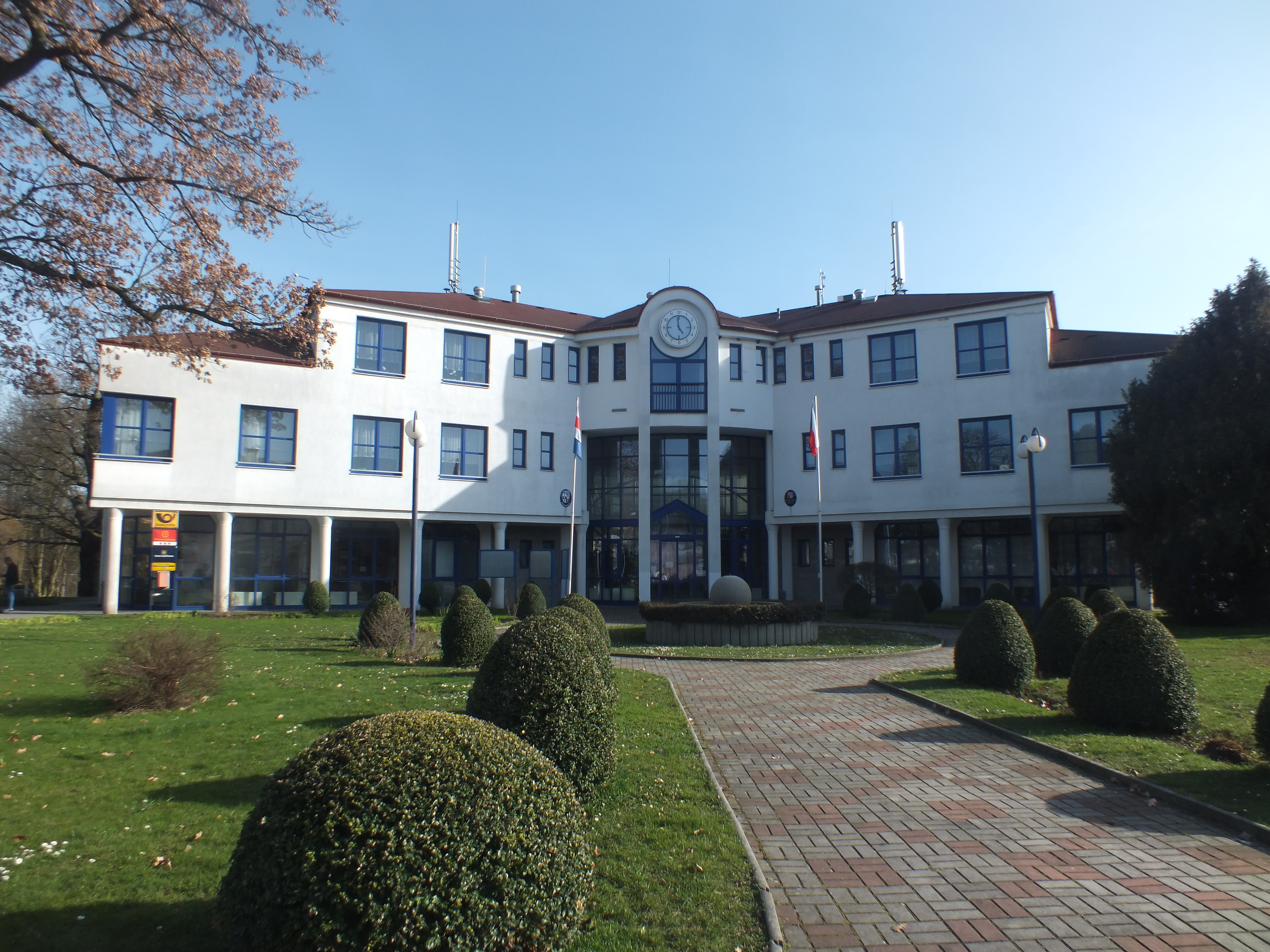 The municipality office, the post office and the municipal library in Proboštov